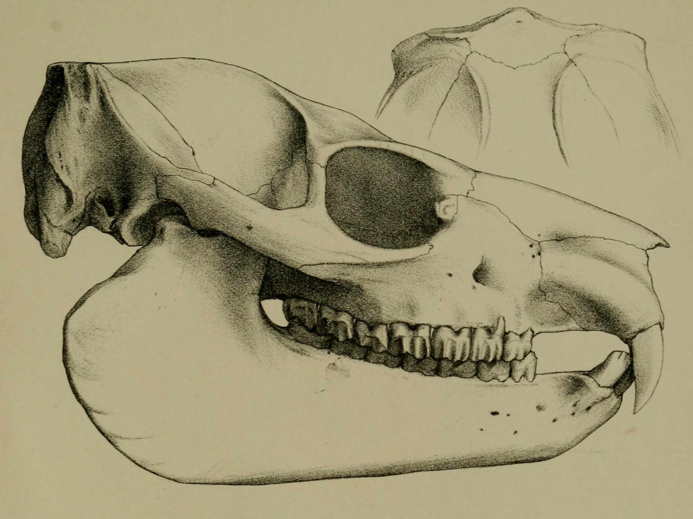 Skull of Dendrohyrax dorsalis